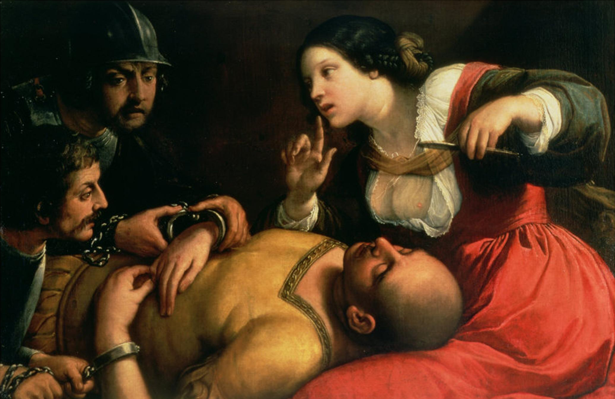 Delilah betraying Samson, and turns him over to the Philistines